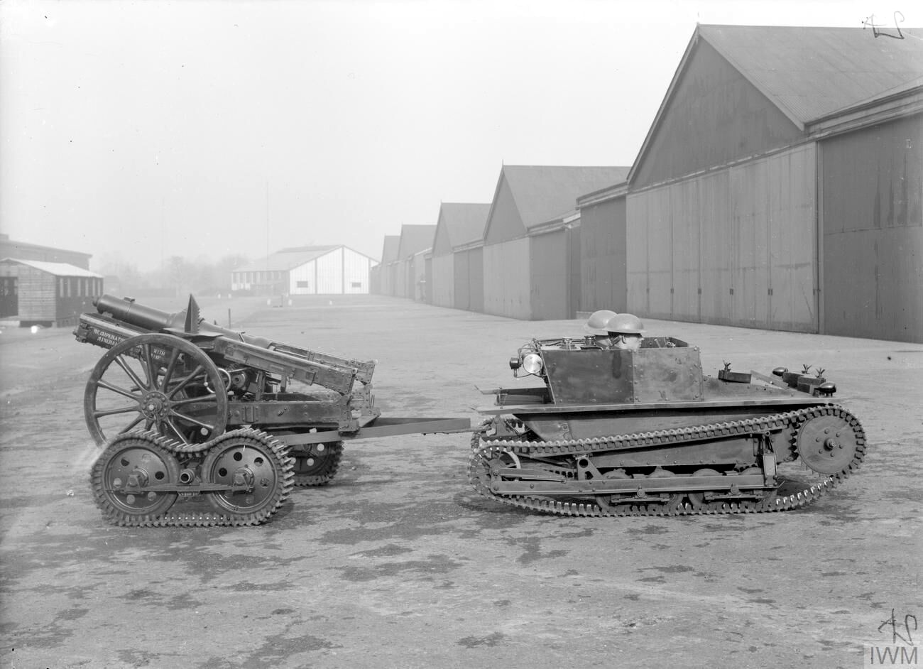 BRITISH ARMOURED FIGHTING VEHICLES 1918-1939 Carden-Loyd Mk VI Mortar Carrier with trailer and 3.7 inch QF Howitzer Mk I.